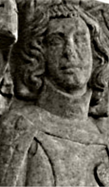 Henry I of Jawor